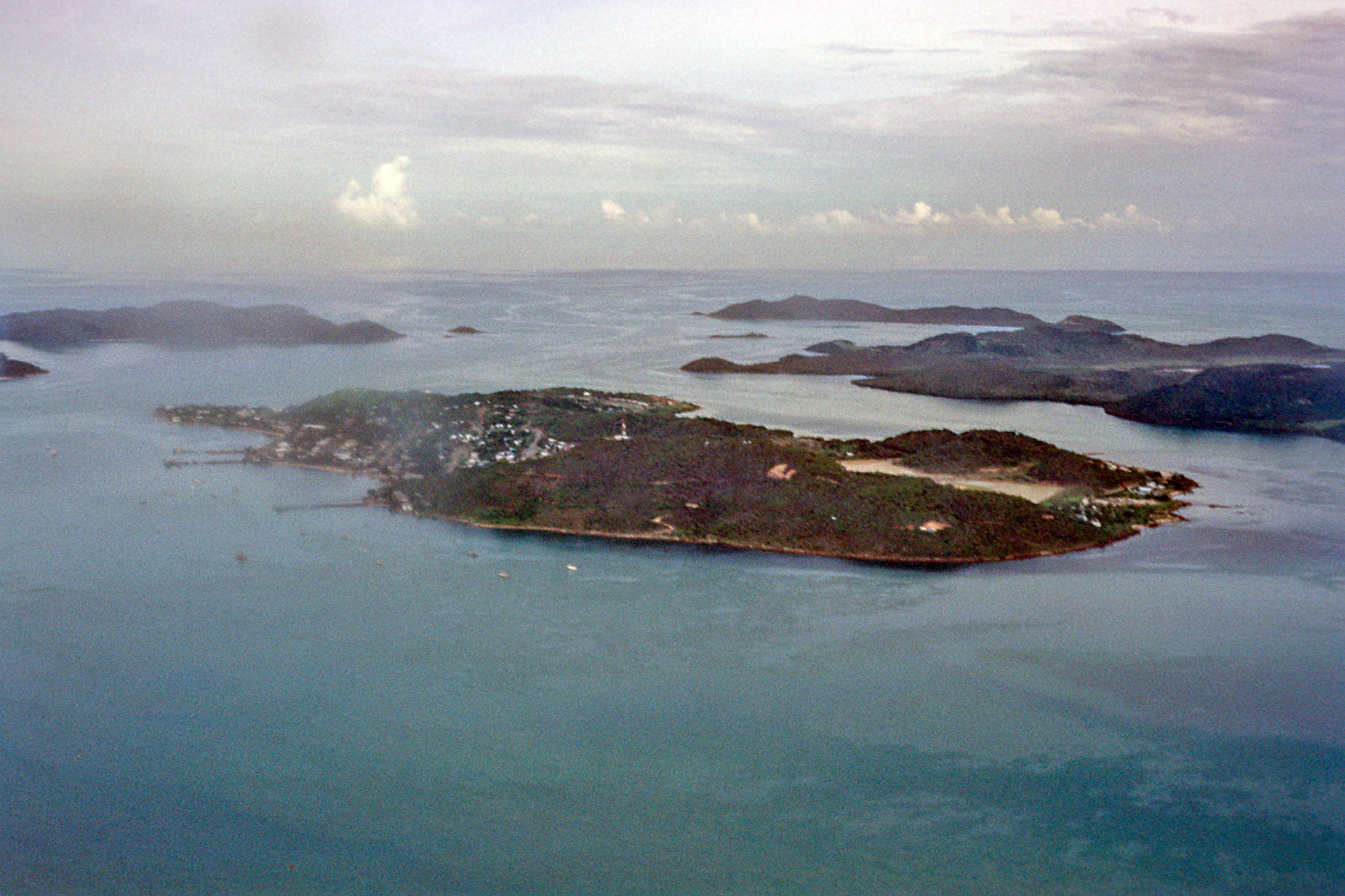 Air photograph of Horn Island and other islands in Torres Strait